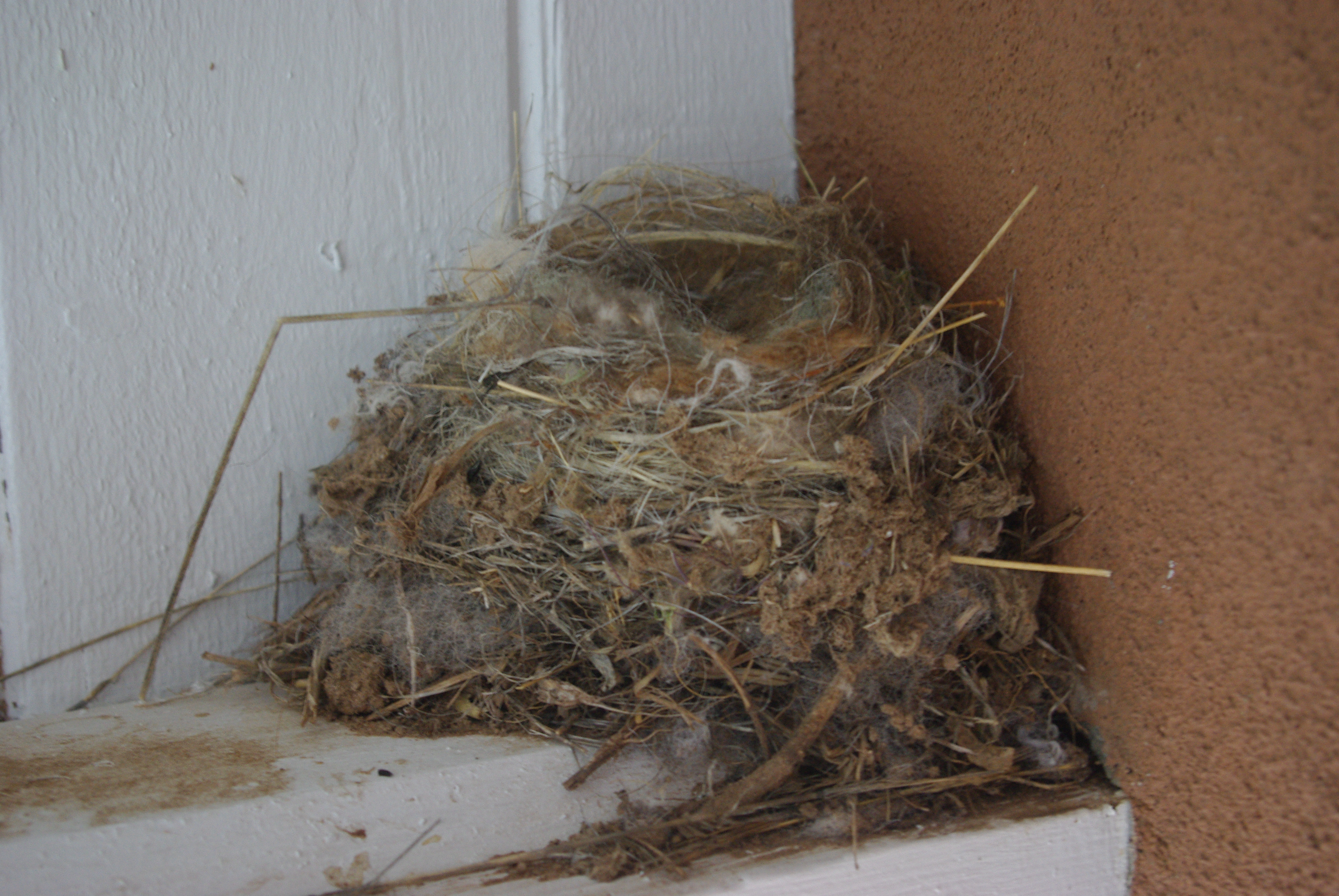 Empty nest of Sayornis saya, Say's Phoebe, inside a porch, Española, New Mexico.